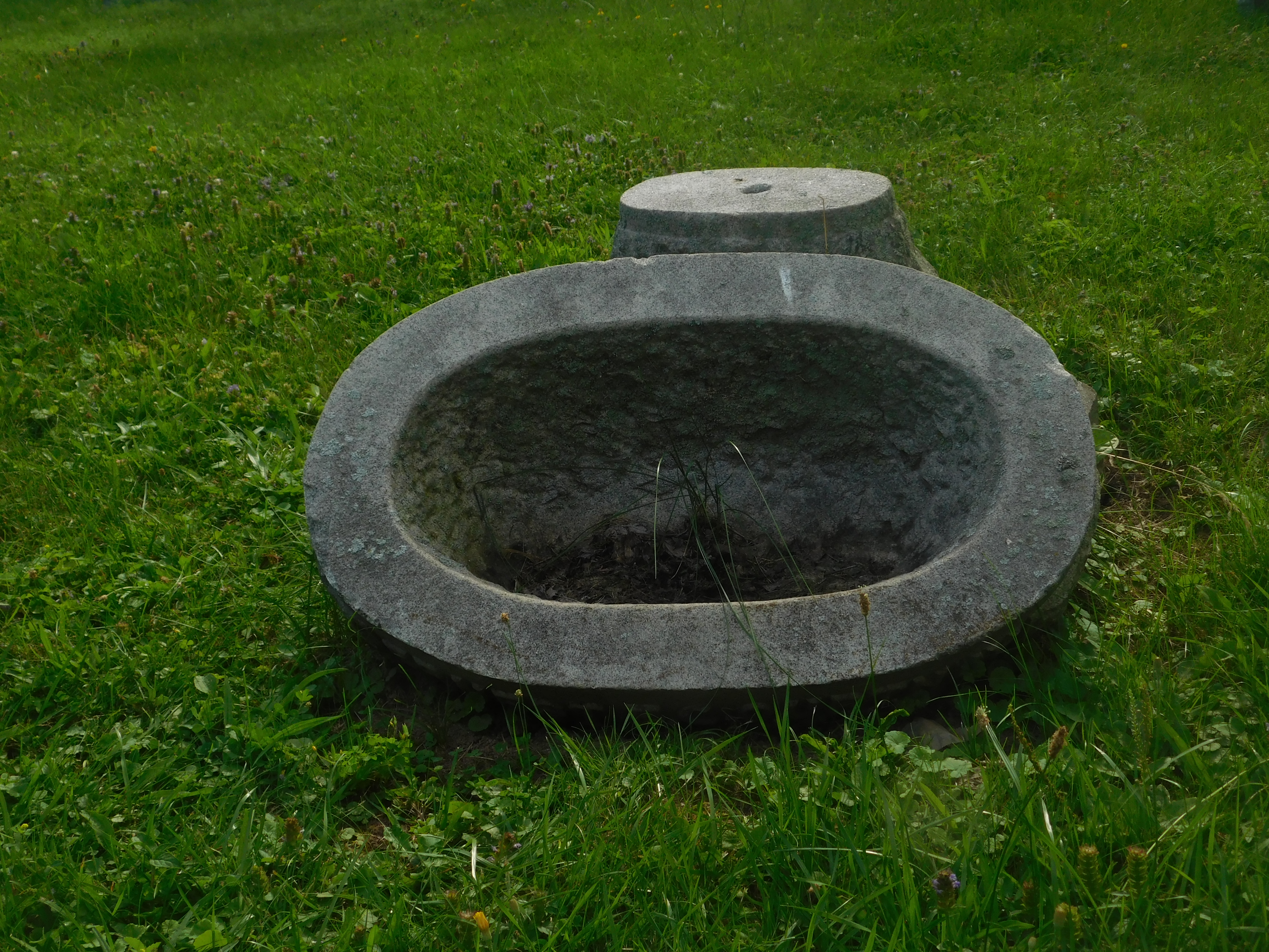 The gravestone of former Philadelphia Phillies infielder Ernie Courtney.